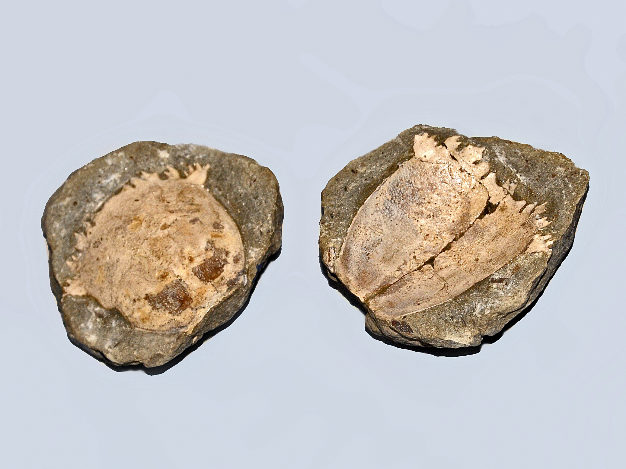 Fossil of Ranina speciosa, on display at the Museo Paleontologico Giulio Maini, Ovada